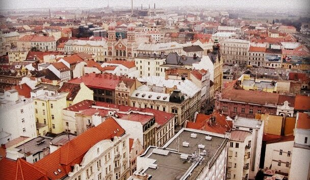 Pilsen from above